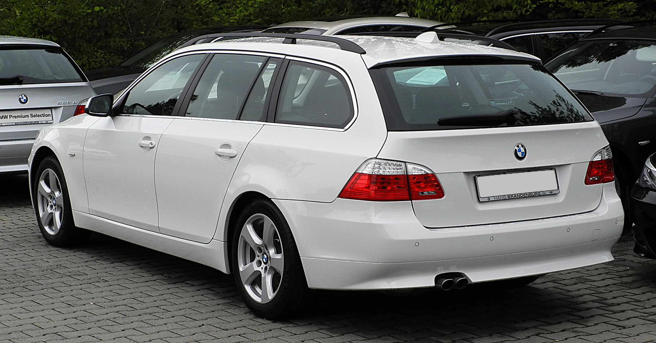 BMW 525d xDrive Touring (E61, Facelift)